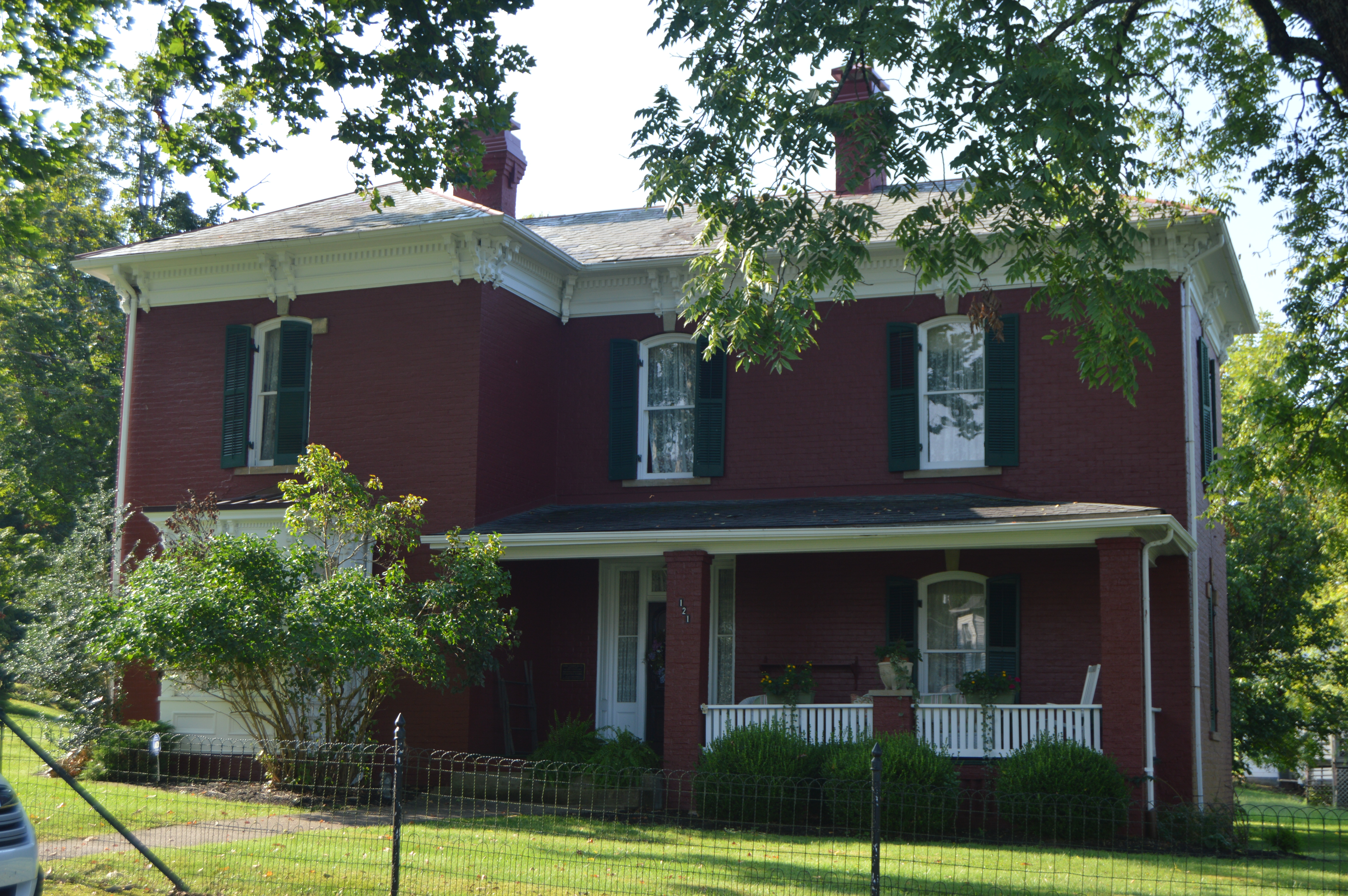 Front of the Clerc-Carson House, located at 121 North Street in Ripley, West Virginia, United States. Built in 1880, it is listed on the National Register of Historic Places.